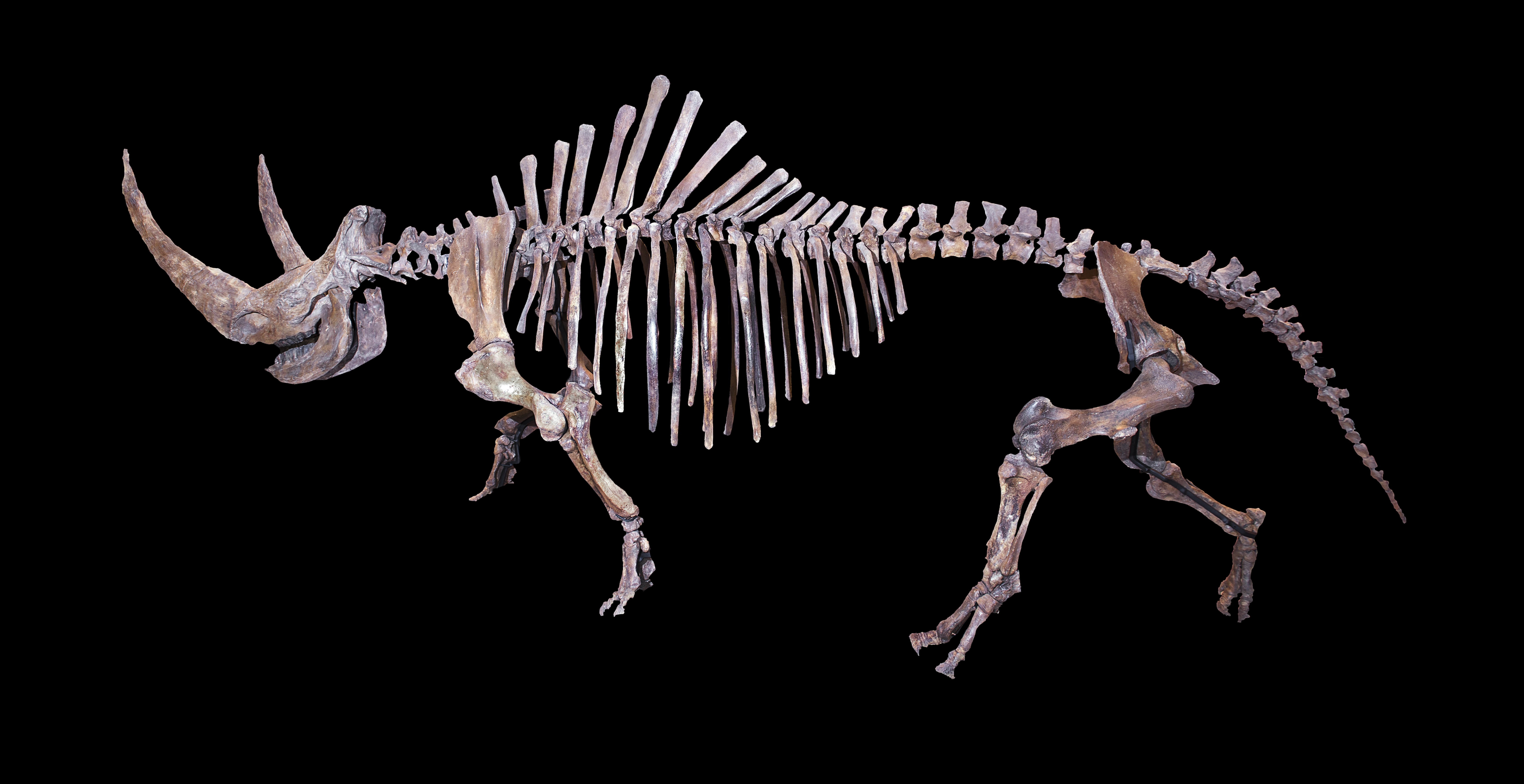 Woolly Rhinoceros (Coelodonta antiquitatis Blumenbach, 1807) Stage : 370 000 - 10 000 Years Pleistocene Locality : Yamalo-Nenetsky region, Siberia, Russia Museum of Toulouse Size : 4x1.75 m